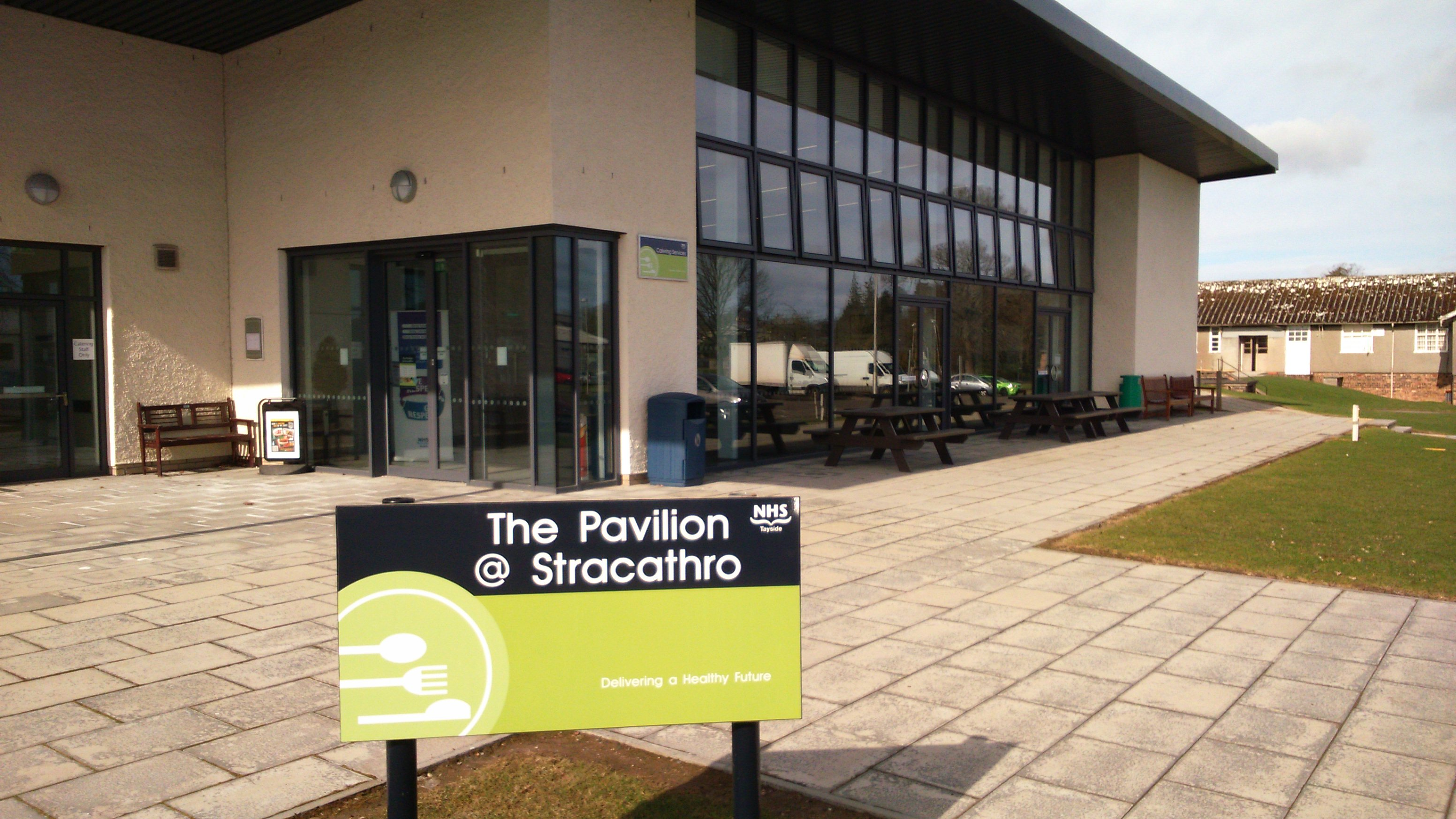 Stracathro Hospital and its stunning cafeteria with enthusiastic and friendly staff